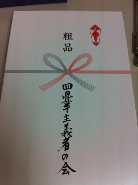 Posted by 粗品 by 四畳半主義者の会 (四畳半神話大系).